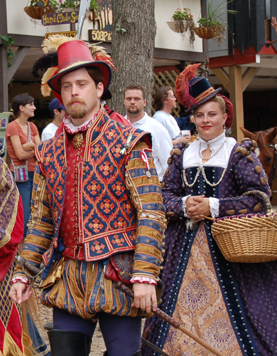 Actors at the Bristol Renaissance Faire in Bristol, Wisconsin, parade in their Elizabethan clothing, Sir Willouby d'Eresby (Patrick Bailey), and Lady Elizabeth Wolley (Cathy Smoot).